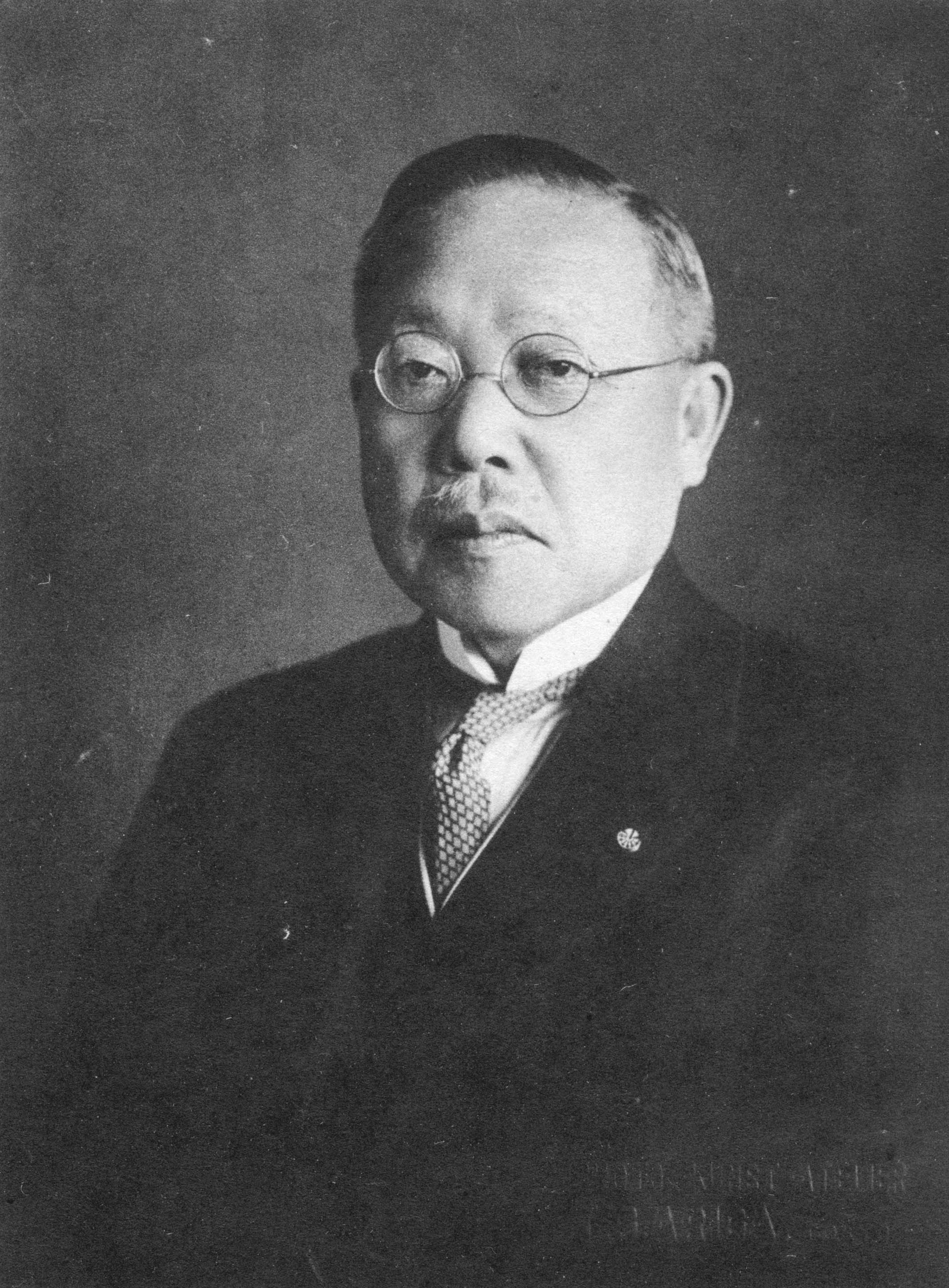 Recent portrait of Dr. Kumaji Yoshida.